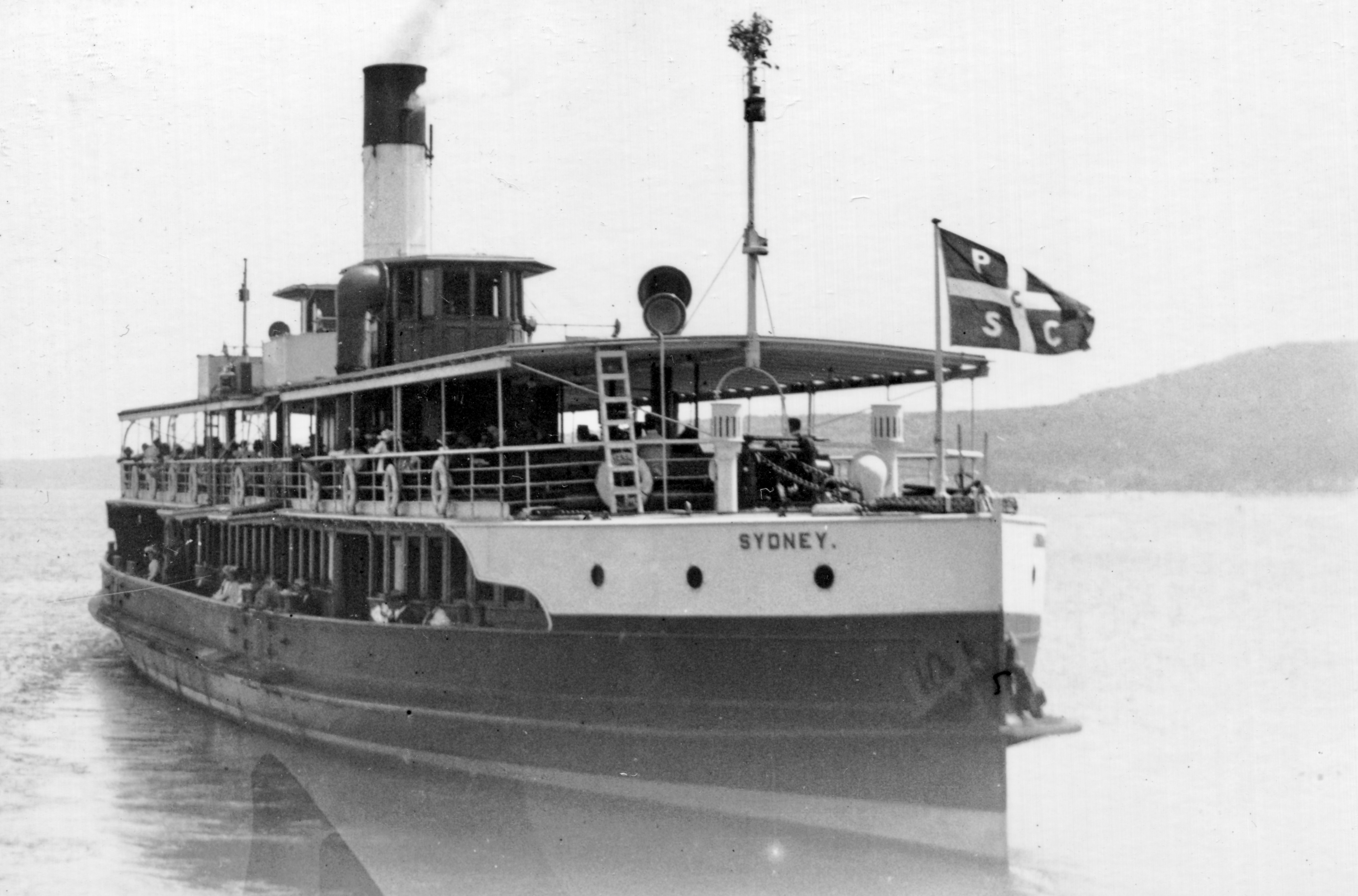 Sydney Ferry KURRINGAI circa 1902